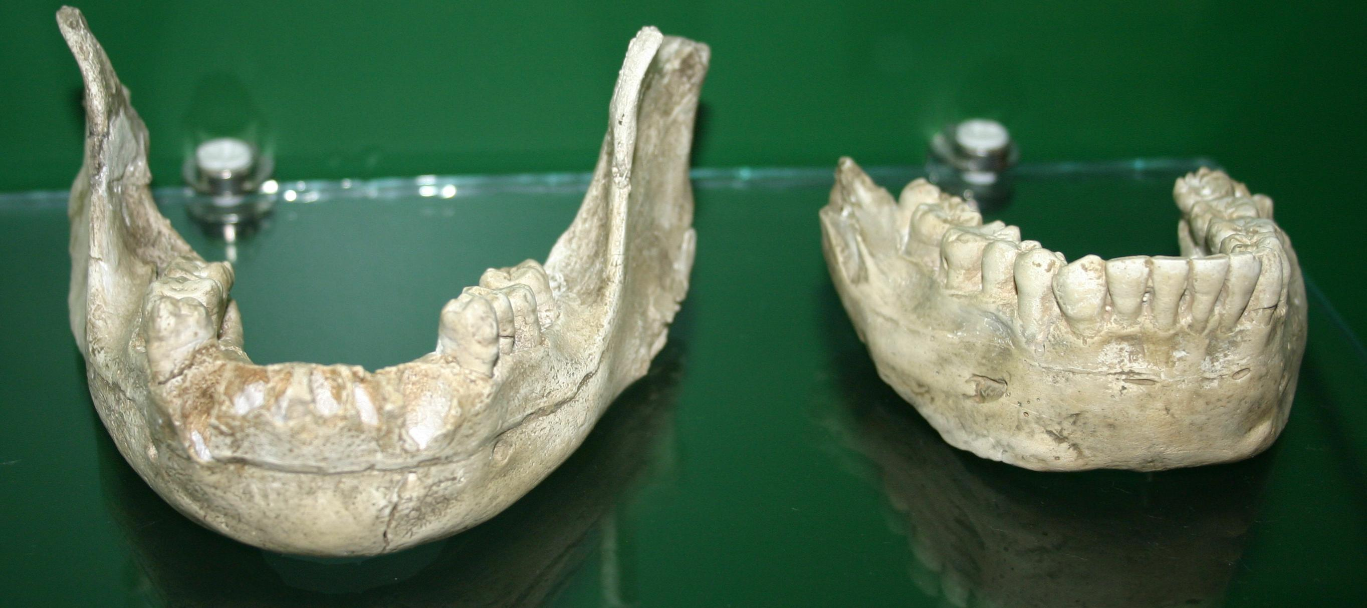 Replicas. D 2735 (left), D 211 (right)With thanks to the Batumi archaeological museum for allowing photography